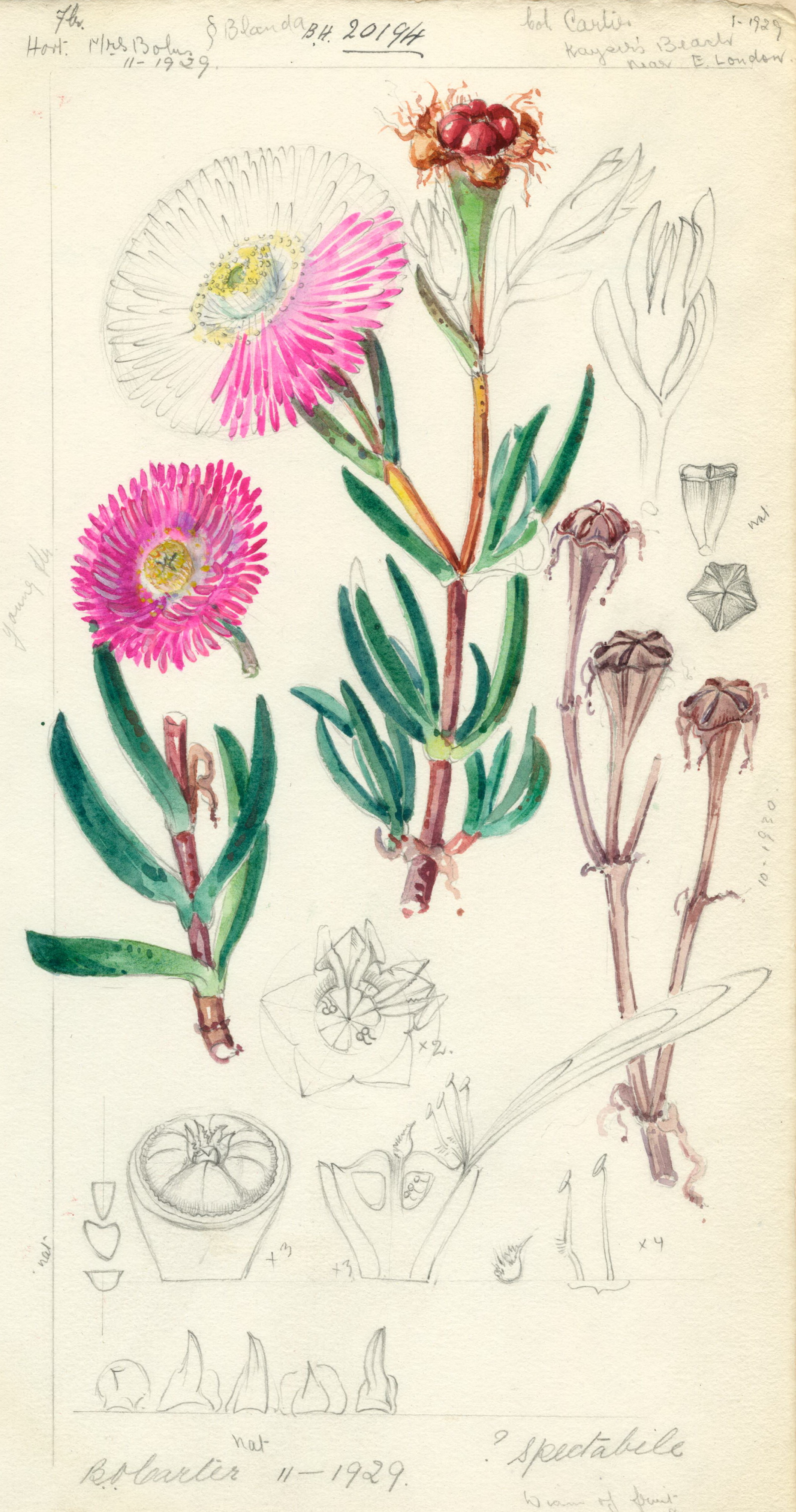 Lampranthus spectabilis (Haw.) . - a South African mesemb